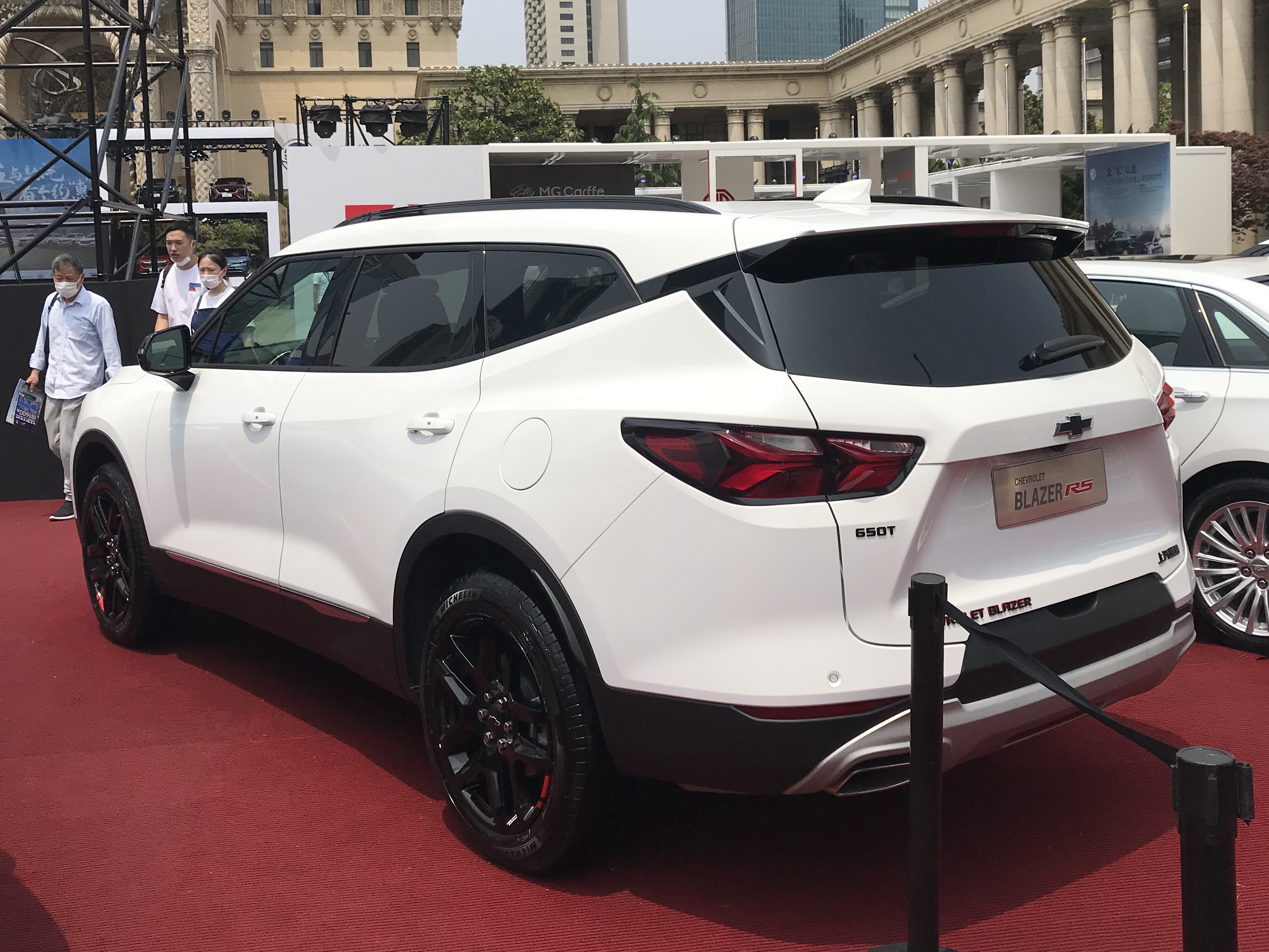 Chevrolet Blazer in China